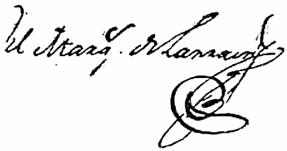 Autograph_of_the_1st_Marquis_of_Larrain